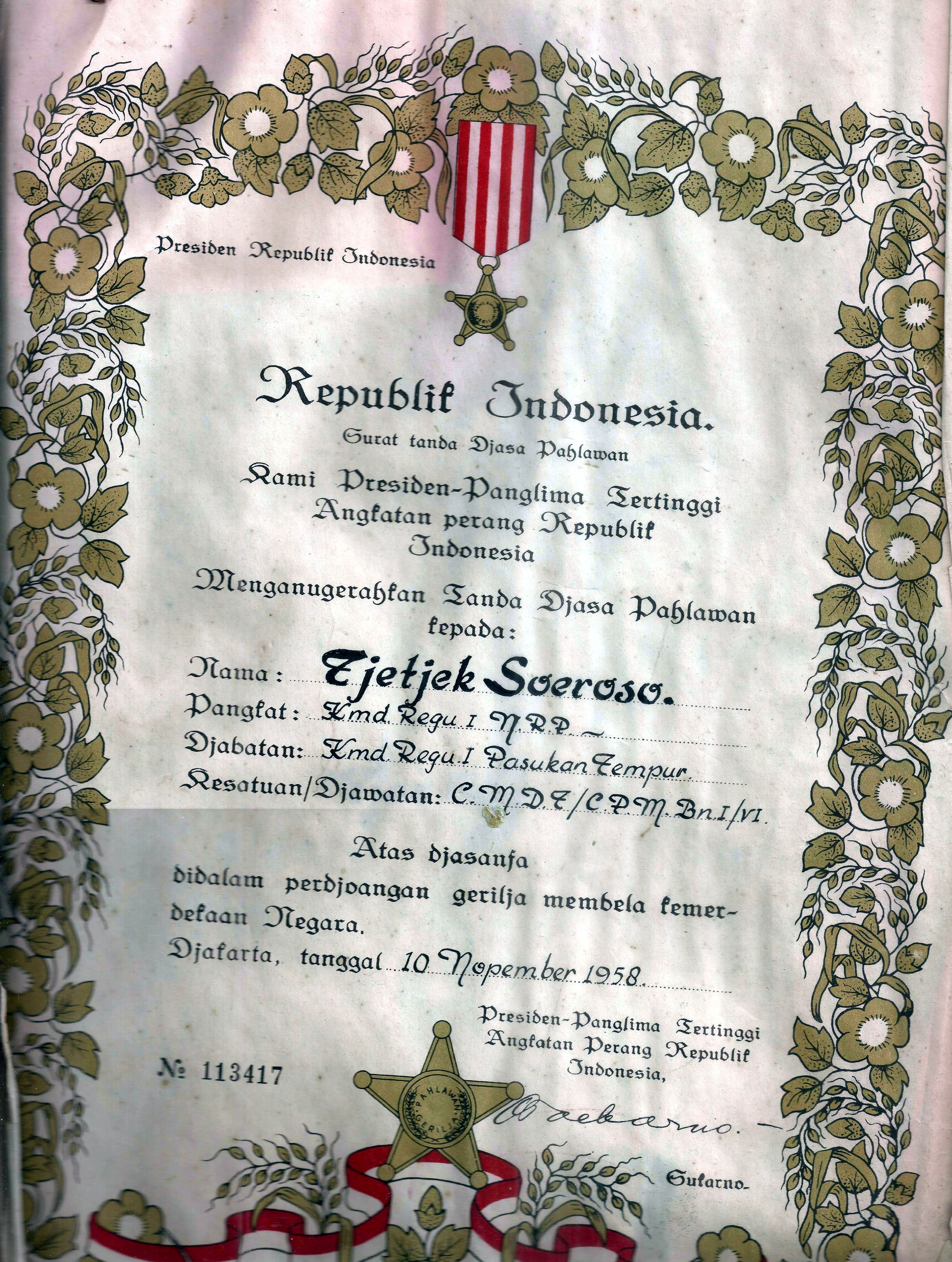 Pahlawan Gerilja (modern spelling. Gerilya) diploma as received by my grandfather